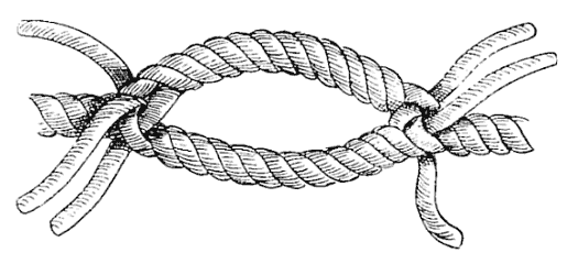 Splicing two ropes with the "Cut Splice." The Cut Splice is made just as an eye splice or short splice, but instead of splicing two ropes together end to end, or splicing an end into a standing part, the ends are lapped and each is spliced into the standing part of the other, thus forming a loop or eye in the centre of a rope. Once the short and long splices are mastered, all other splices, as well as many useful variations, will come easy. Oftentimes, for example, one strand of a rope may become worn, frayed, or broken, while the remaining strands are perfectly sound. In such cases the weak strand may be unlaid and cut off and then a new strand of the same length is laid up in the groove left by the old strand exactly as in a long splice; the ends are then tapered, stuck under the lay, as in a short splice, and the repair is complete; and if well done will never show and will be as strong as the original rope.